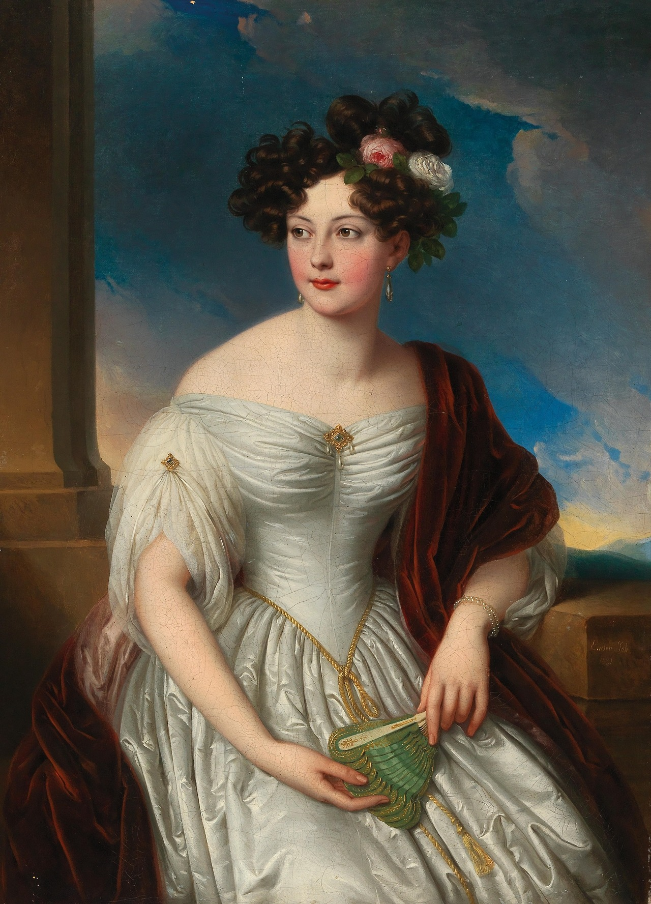 Portrait of Pauline of Württemberg (1800–1873) or Claudine Rhédey von Kis-Rhéde (1812-1841) before a landscape background, signed, dated Ender Johann 1831, oil on canvas, 117 x 86 cm, framed, (Rei)